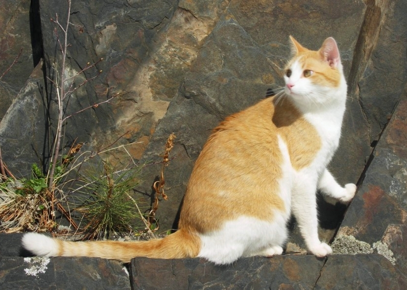 A cat in the black hills. "Poser" ;-)